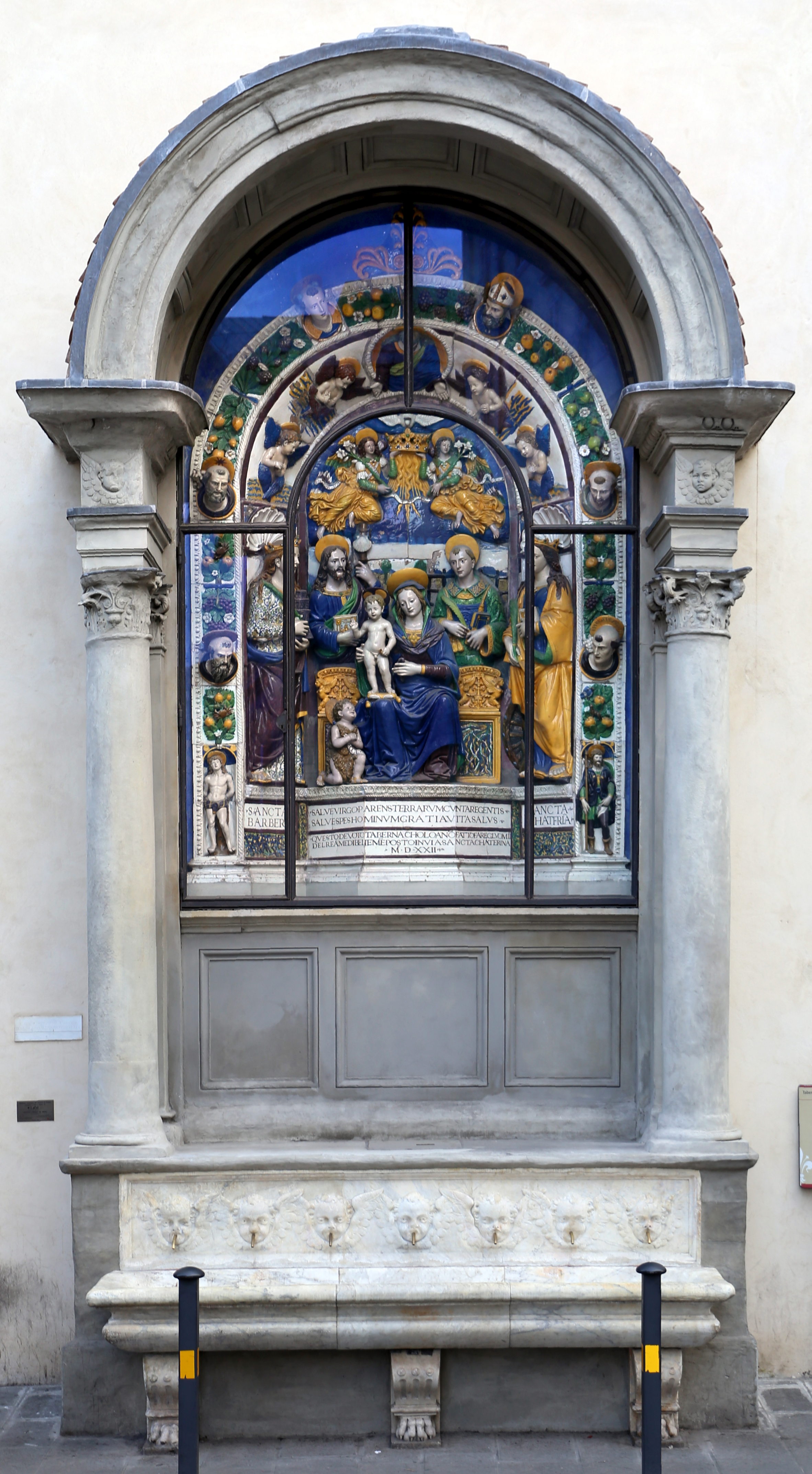 Tabernacolo delle Fonticine